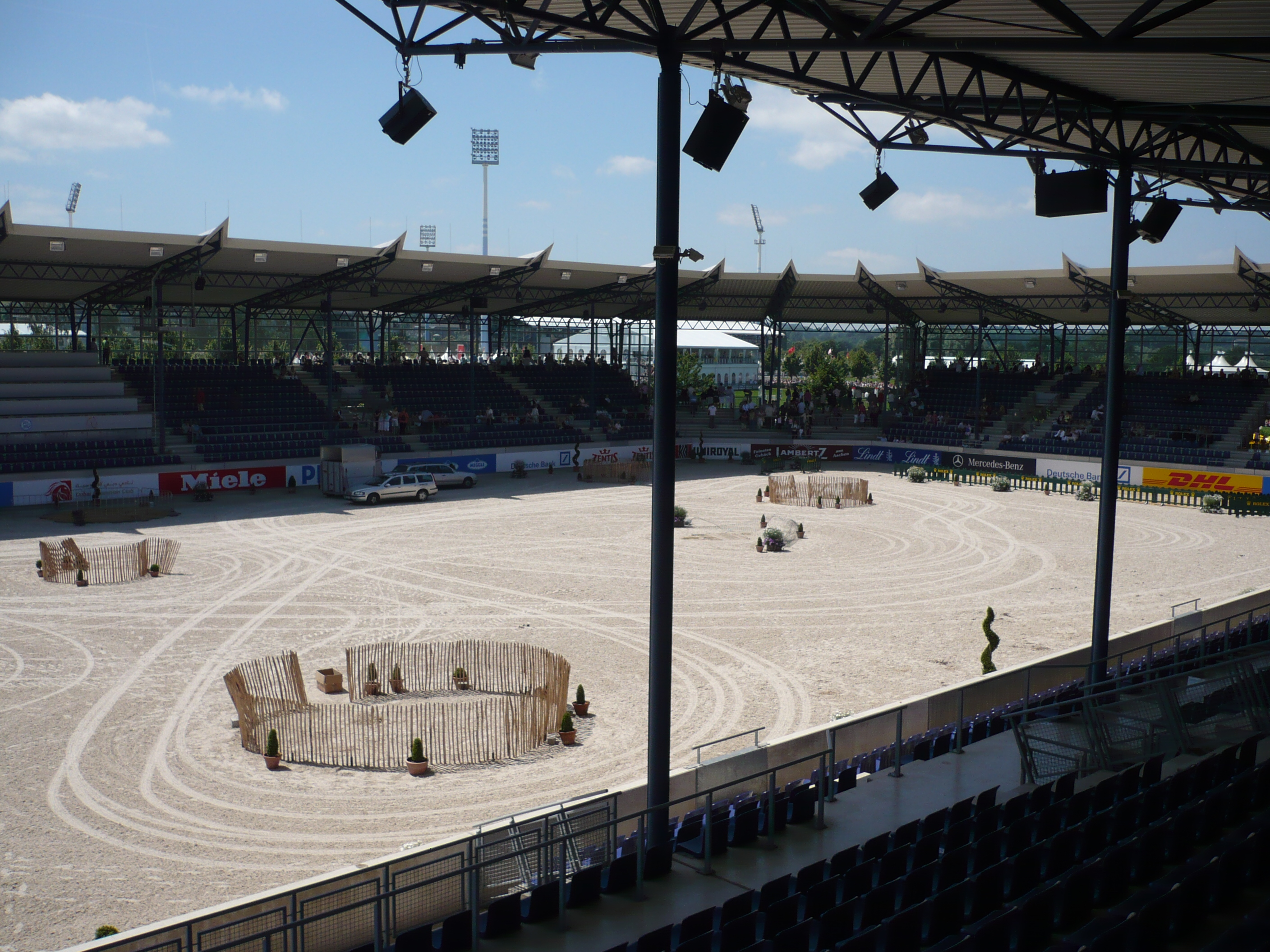 The dressage stadium at the Soers in Aachen, Germany. Here are located the dressage competitions of the CHIO Aachen. The offical name of the stadium is "Deutsche Bank Stadion".